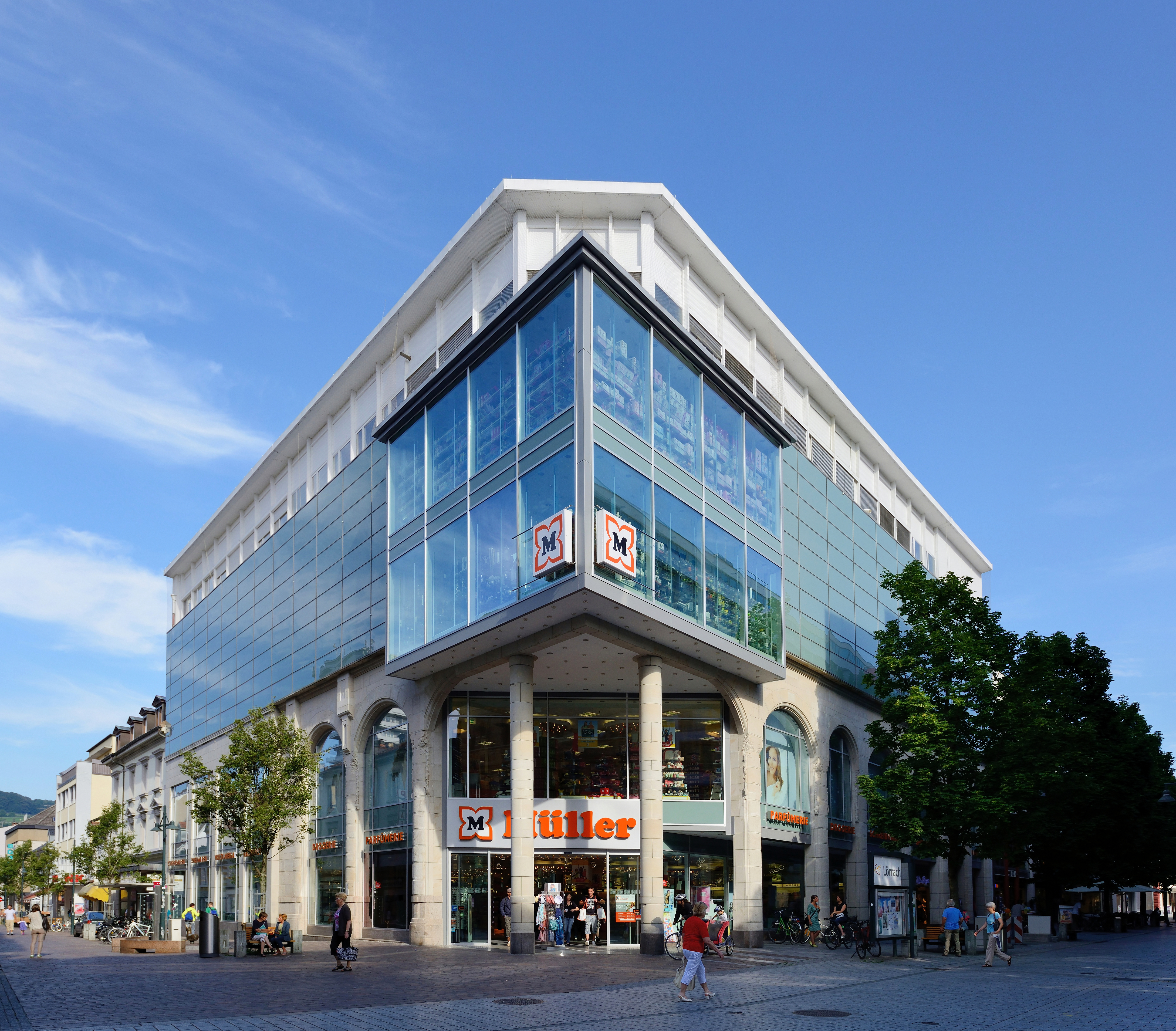 Lörrach: "Müller" store